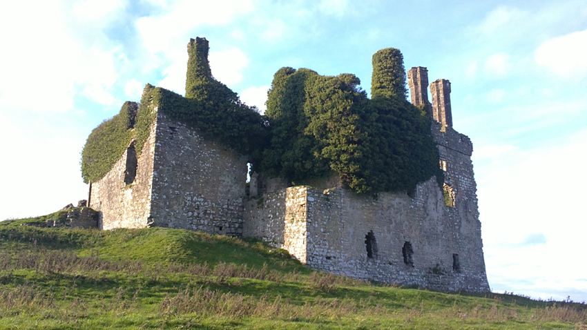 Douglas P.Bermingham